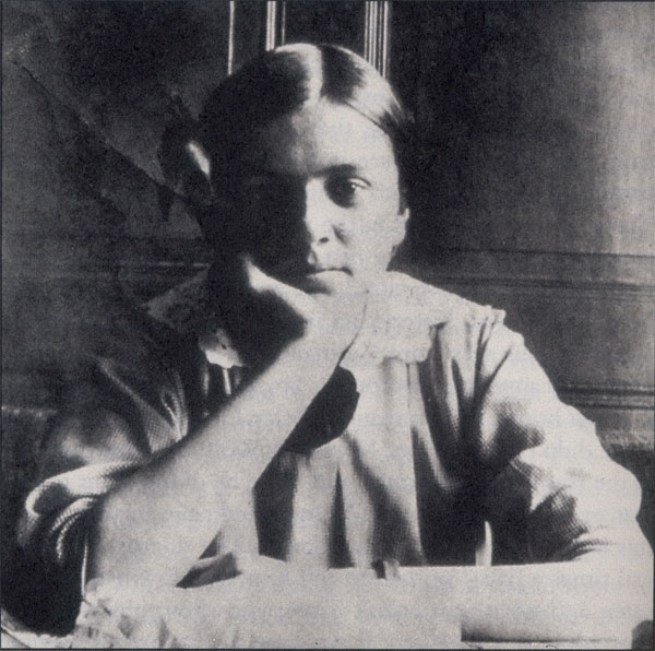 Adrienne von Speyr in Langenbruck, Switzerland